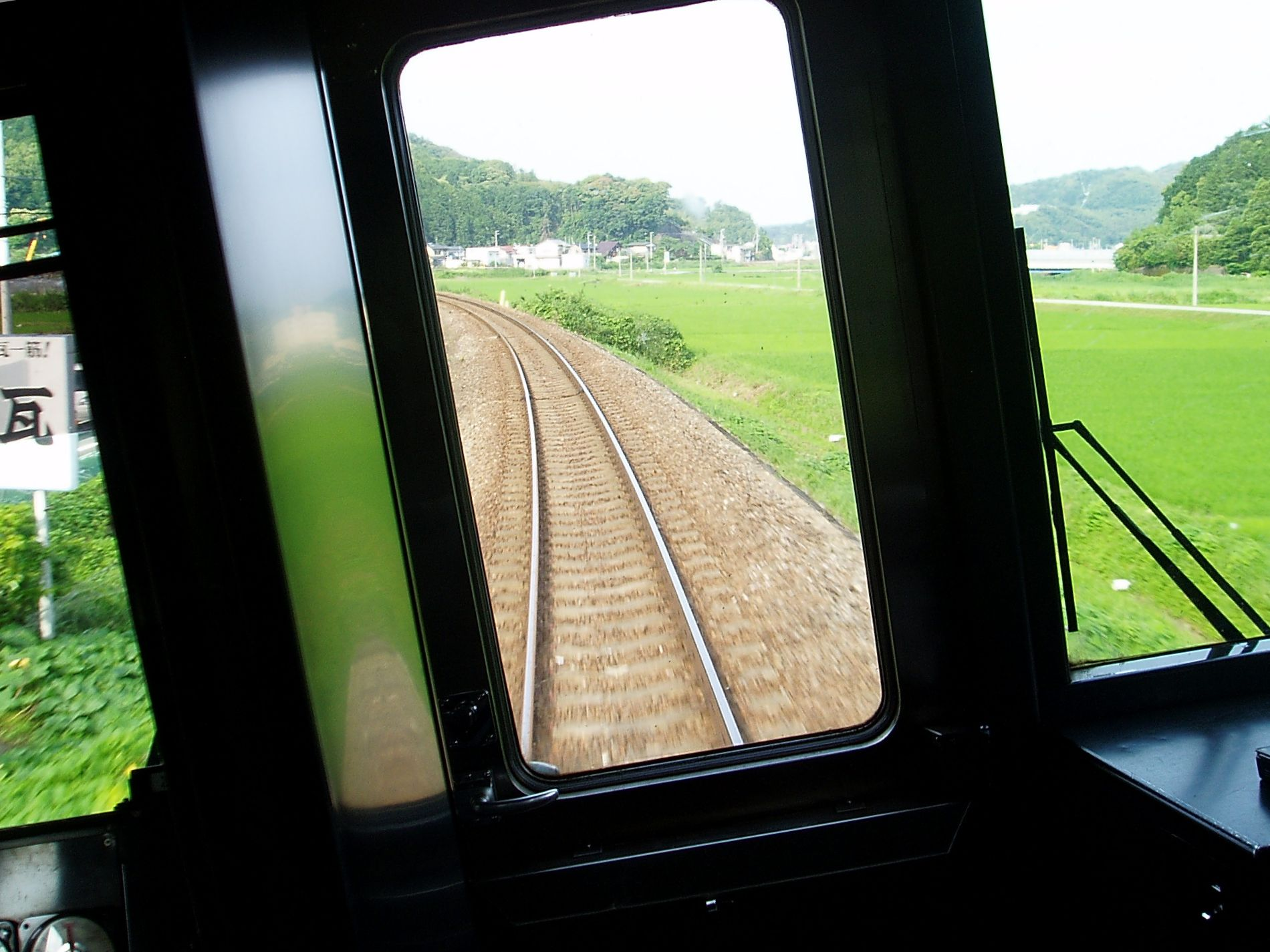 Front scenery at the time of a body inclination by DMU 2000 of JR Shikoku